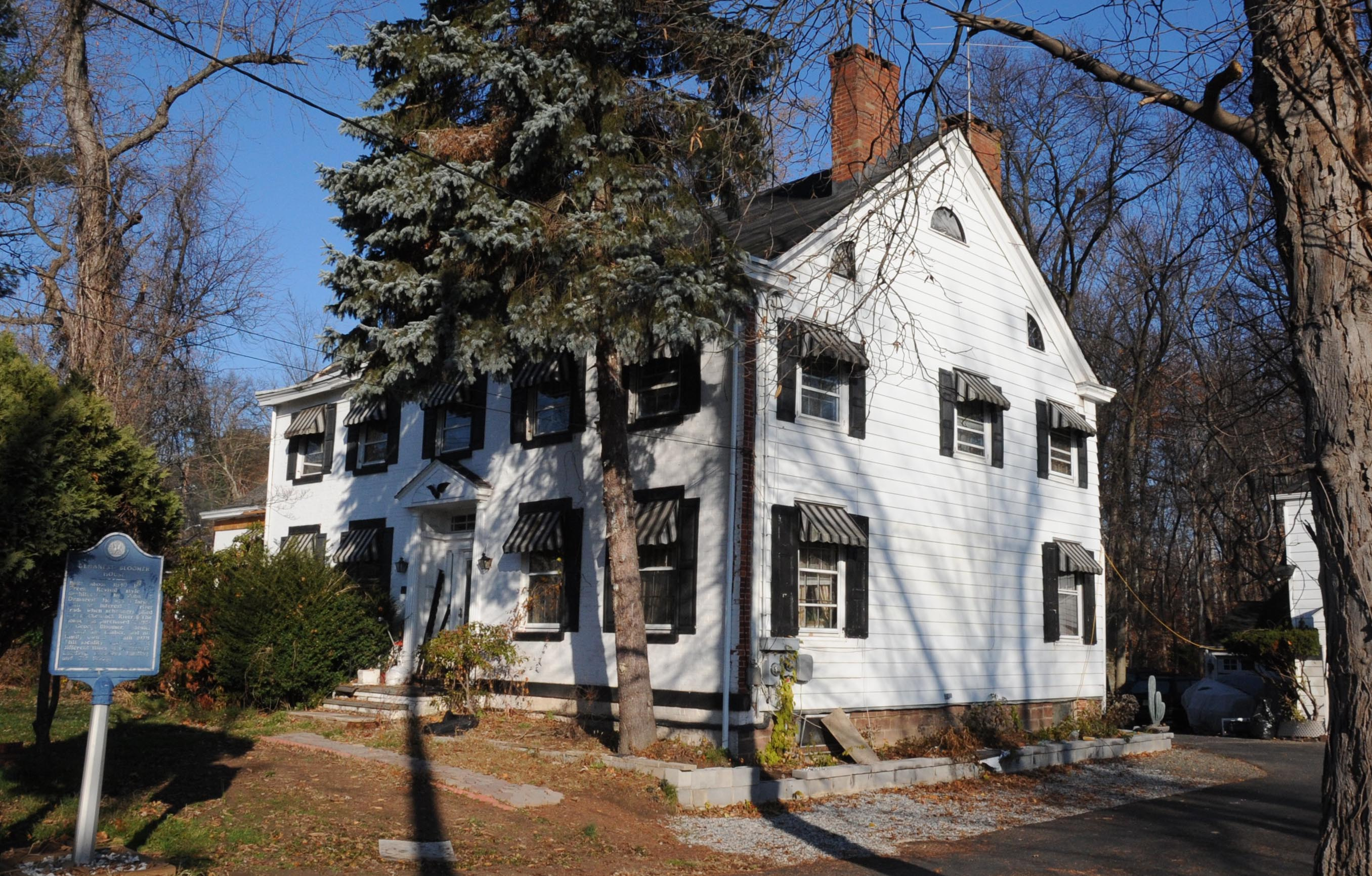 BUILT CIRCA 1810 IN GREEK REVIVAL STYLE BY JOHN DEMAREST WHO WAS A FARMER WITH AN INTEREST IN RIVER TRADE USING THE HACKENSACK RIVER. HOUSE WAS PURCHASED IN 1864 BY GEORGE BLOOMER WHO DEALT IN COAL AND LUMBER